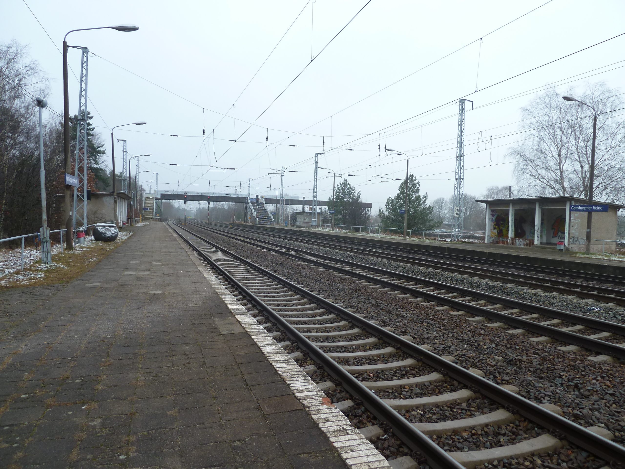 Station Genshagener Heide, platforms